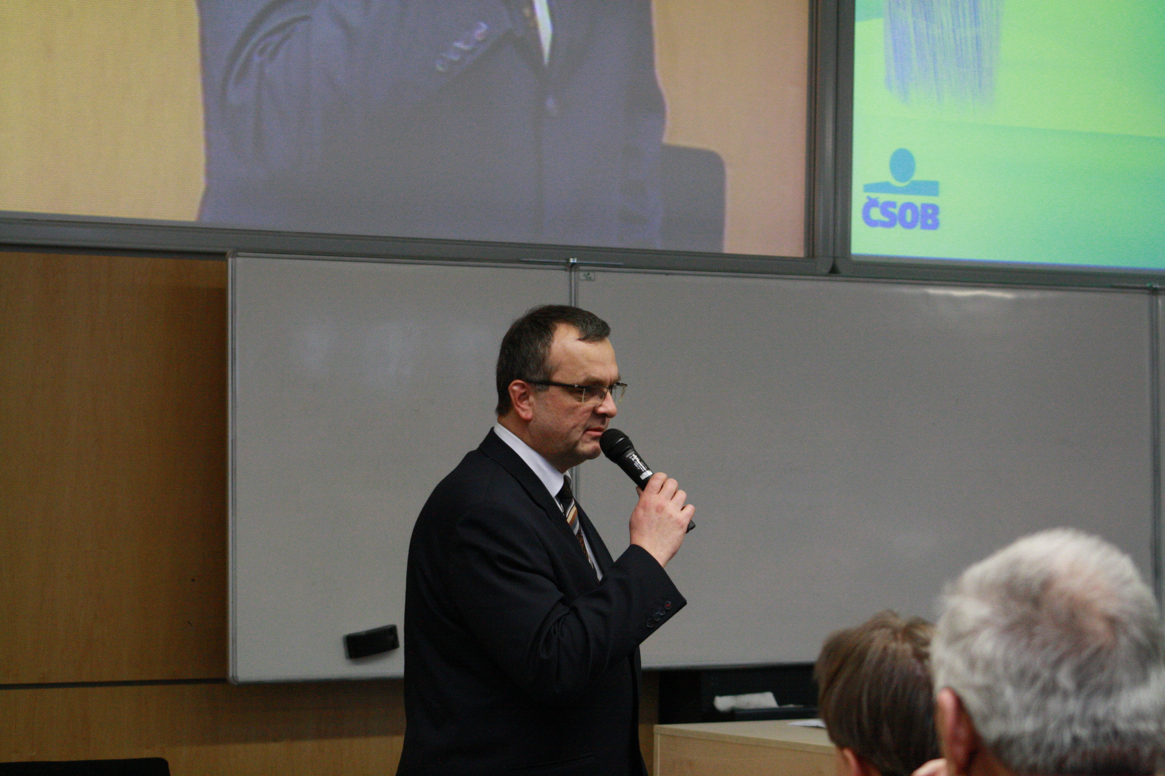 Miroslav Kalousek, Czech economist at MZLU conference.